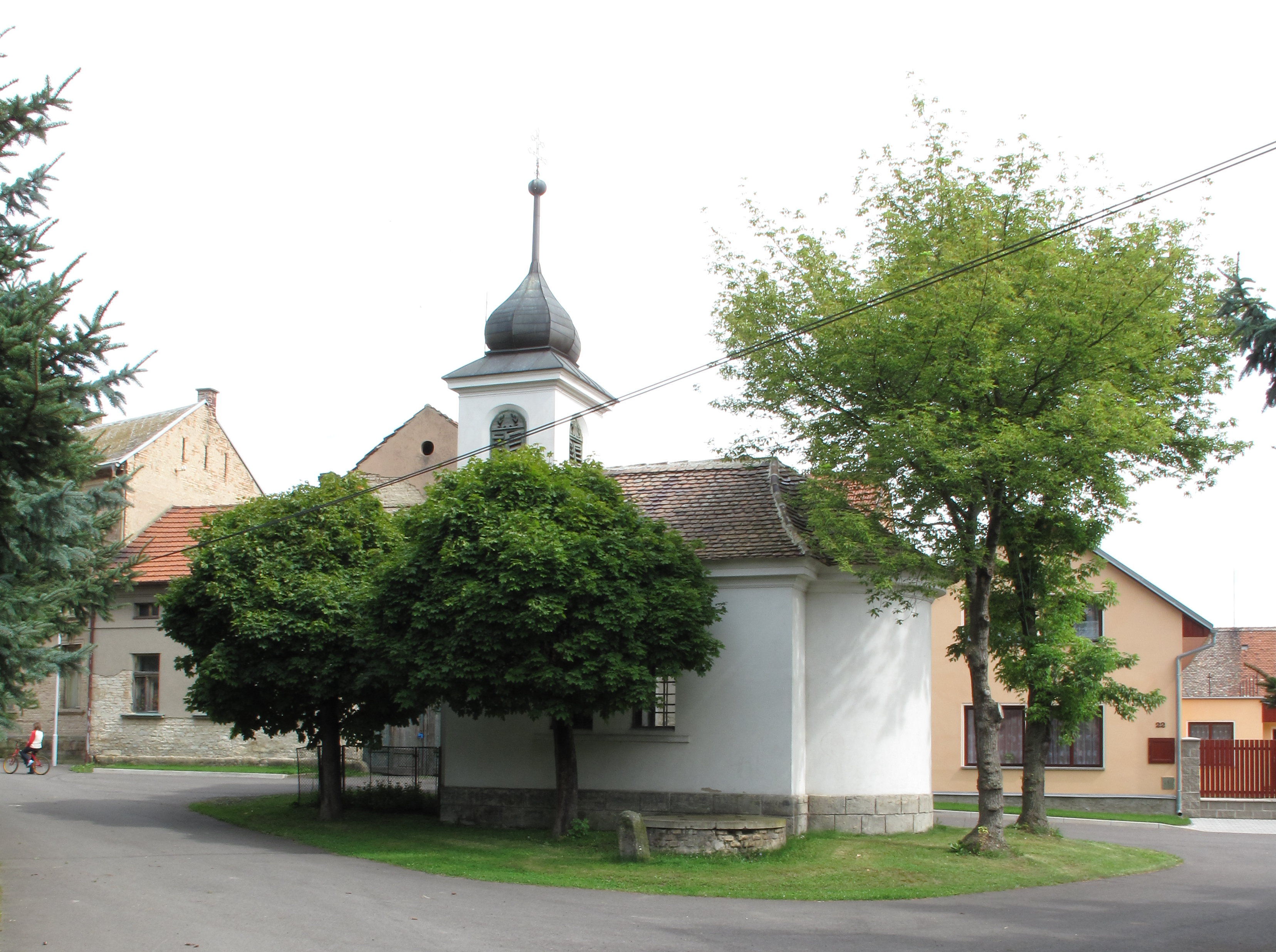 Chapel in Černiv village, Litoměřice District, Czech Republic.